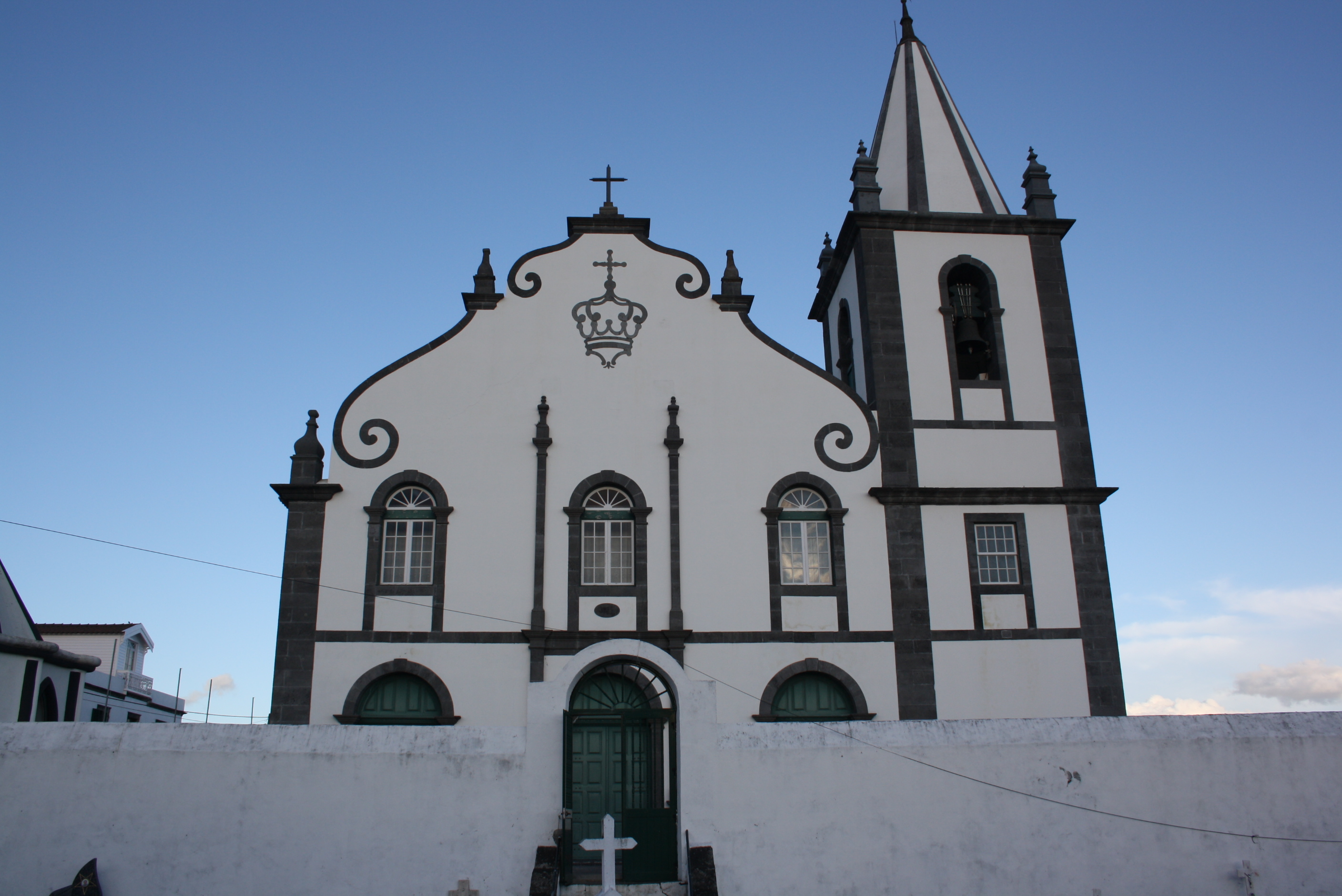 This file was uploaded for Wiki Loves Monuments in Portugal with the unique identifier 97008186.